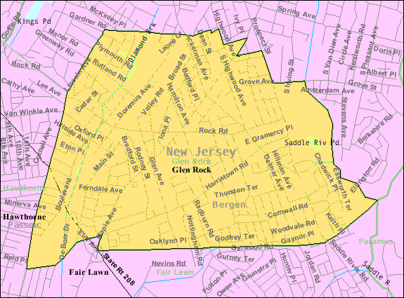 U.S. Census Bureau map of Glen Rock, New Jersey